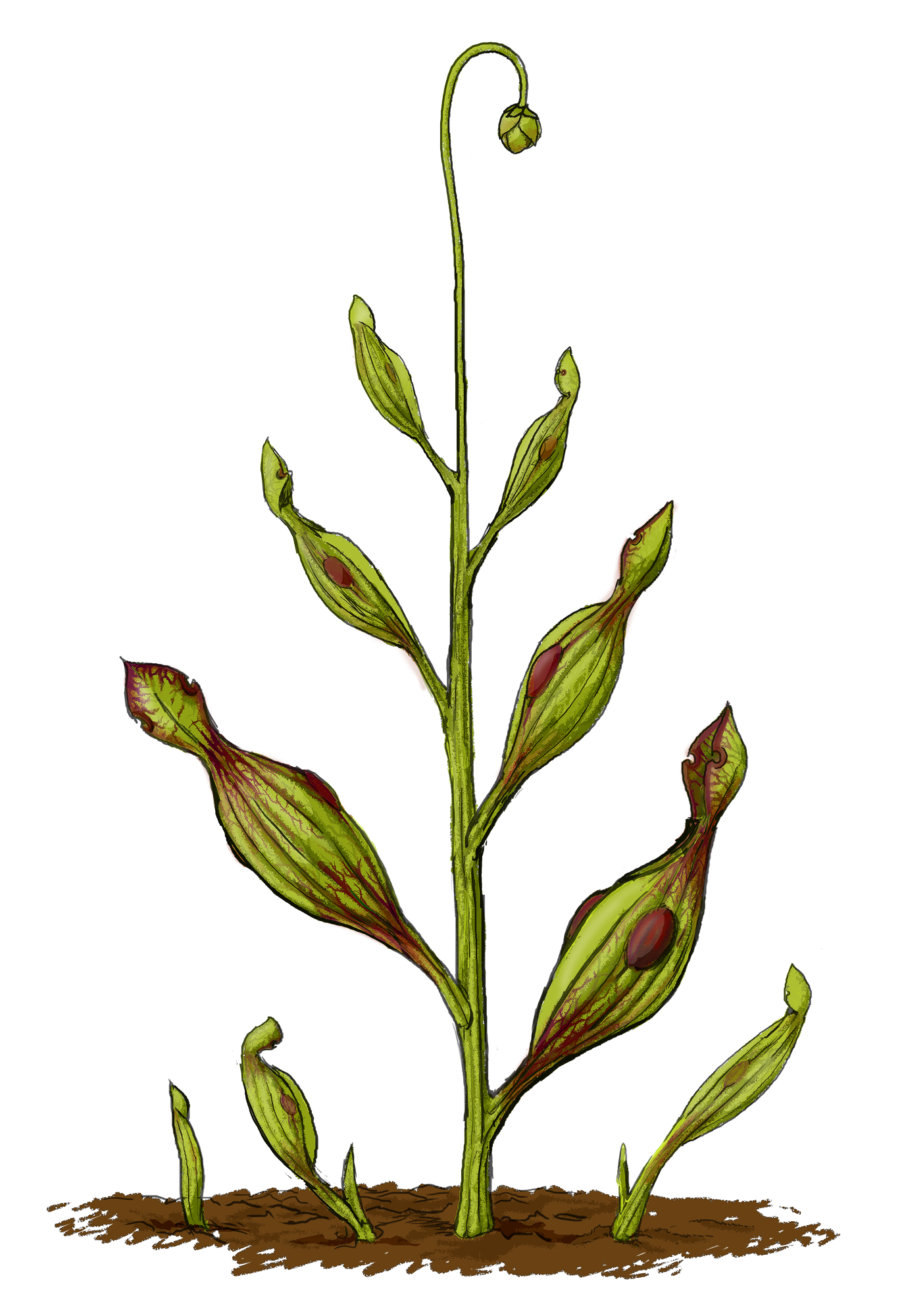 Archaeamphora longicervia is an extinct species of pitcher plant bearing close affinities to extant members of the family Sarraceniaceae. It was discovered in the Early Cretaceous Yixian Formation in northeastern China.[1]